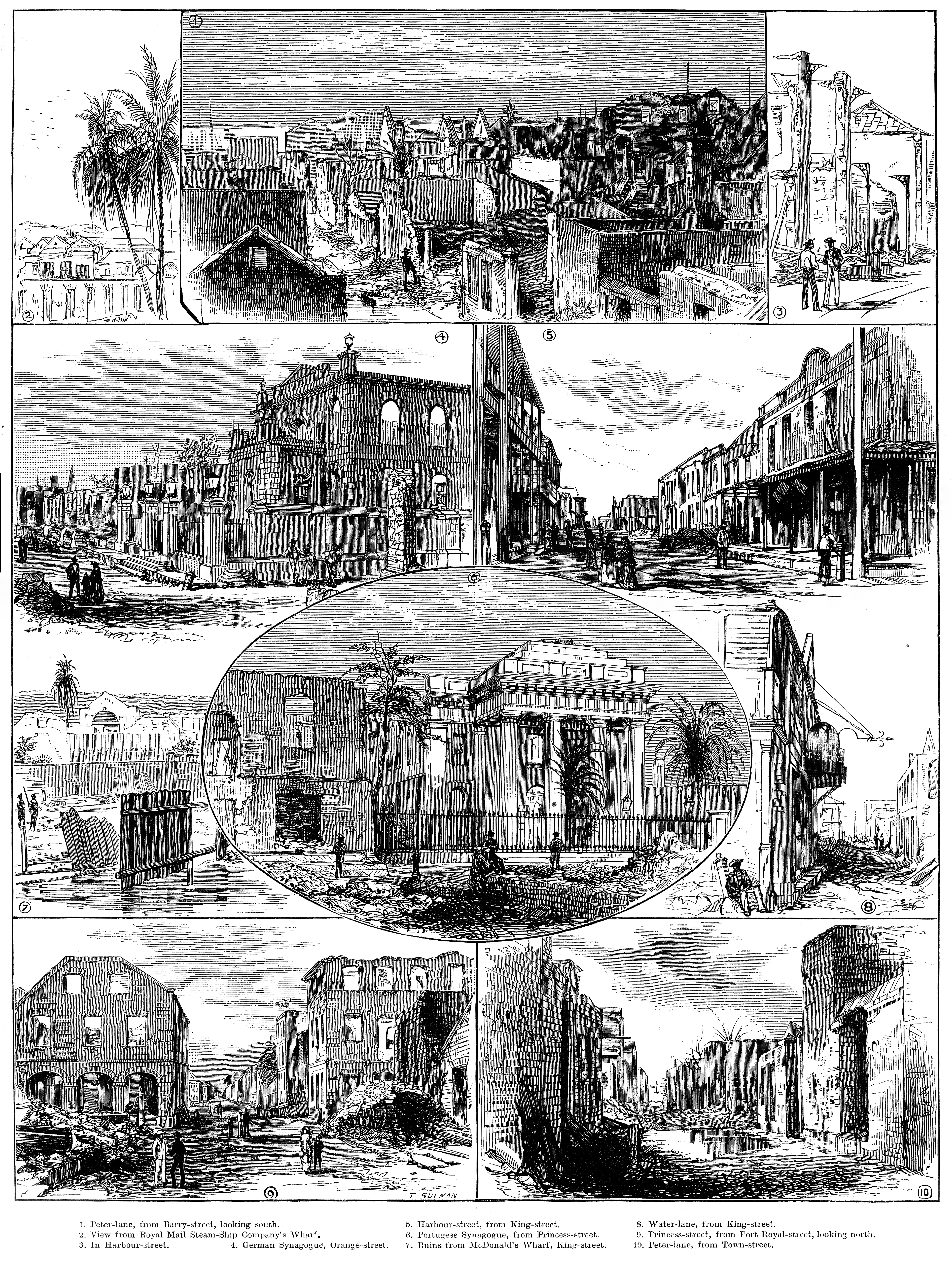 The ruins of the 1882 fire that swept through the lower half of Kingston, Jamaica. The pictures are numbered, but they're numbered slightly oddly, so the following description also gives the location of each picture, as well as a little extra information for those not viewing at full size. Top row: Left (2), the view from the Royal Mail Steam-Ship Company's Wharf. Centre (1), Peter-lane, from Barry-street, looking south. Right (3), In Harbour Street. Second Row: Left (4), German Synagoue, Orange-street. Note the lack of roof. Right (5), Harbour-street from King-street. Third row: Left (7), Ruins from McDonald's Wharf, King-street. Centre (6), Portuguese Synagogue, from Princess-street. Take a close look, especially at the left side, near the burned tree: The whole back of it is destroyed. Right (8), Water-lane, from King-street. The sign on the left building advertises Christmas Cards and Toys, in the somewhat blunt Victorian fashion. Bottom Row: Left (9), Princess-street, from Port Royal-street, looking north. Note the sky visible through the windows. Right (10), Peter-lane, from Town-street.